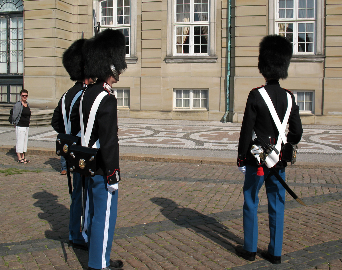 Danish Royal Guards (Den Kongelige Livgarde) Guard Company (Vagtkompagniet) soldiers at the Amalienborg Palace in Copenhagen.